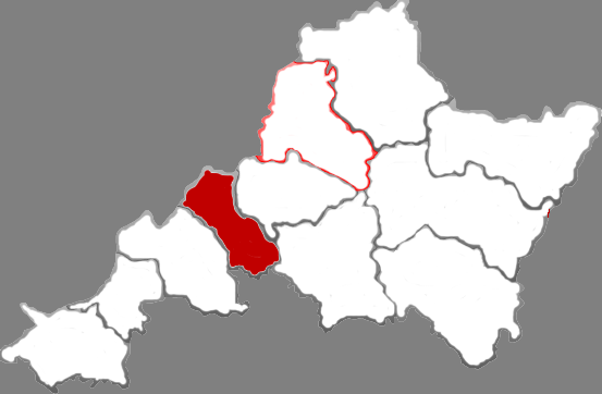 Location of Qi county in JinzhongCity, China